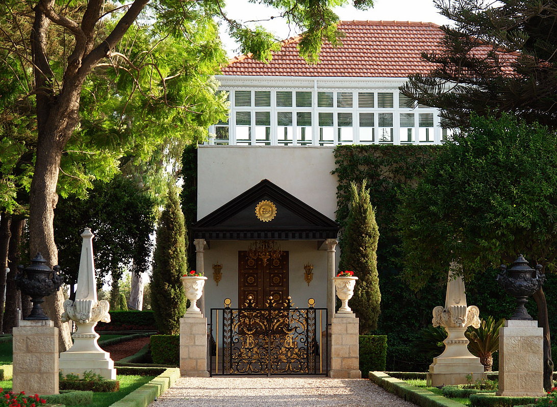 Map of locations of Shrine of Bahá'u'lláh